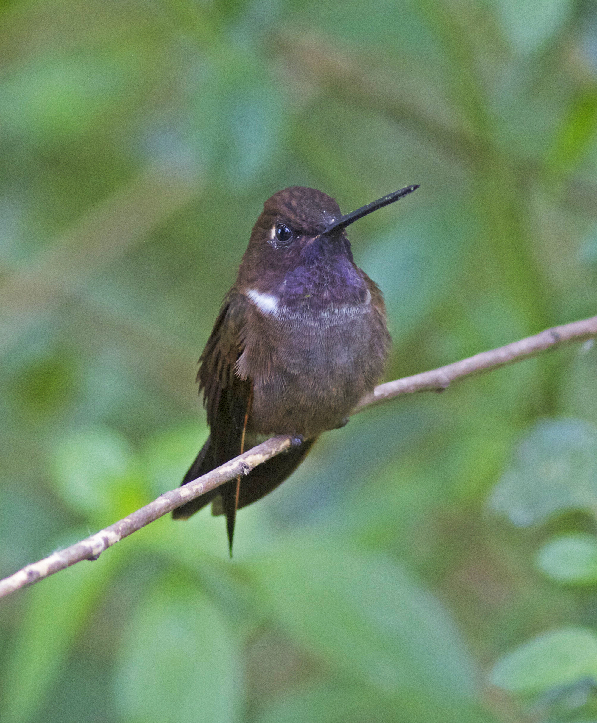 Brown Inca photo taken in the lower Tandayapa Valley, NW Ecuador.